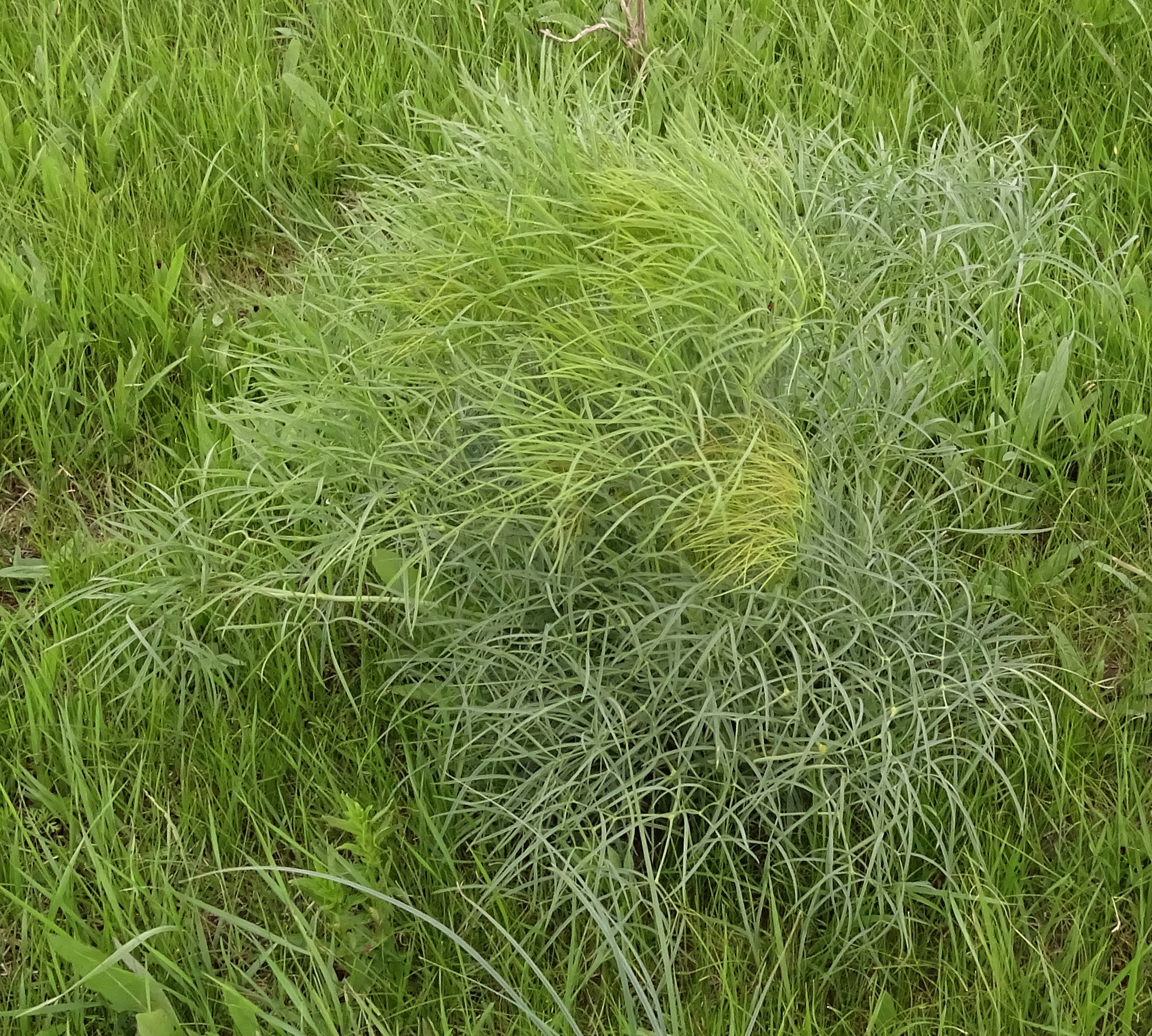 Hog's Fennel, Peucedanum officinale at Vatin, Banat region of Vojvodina